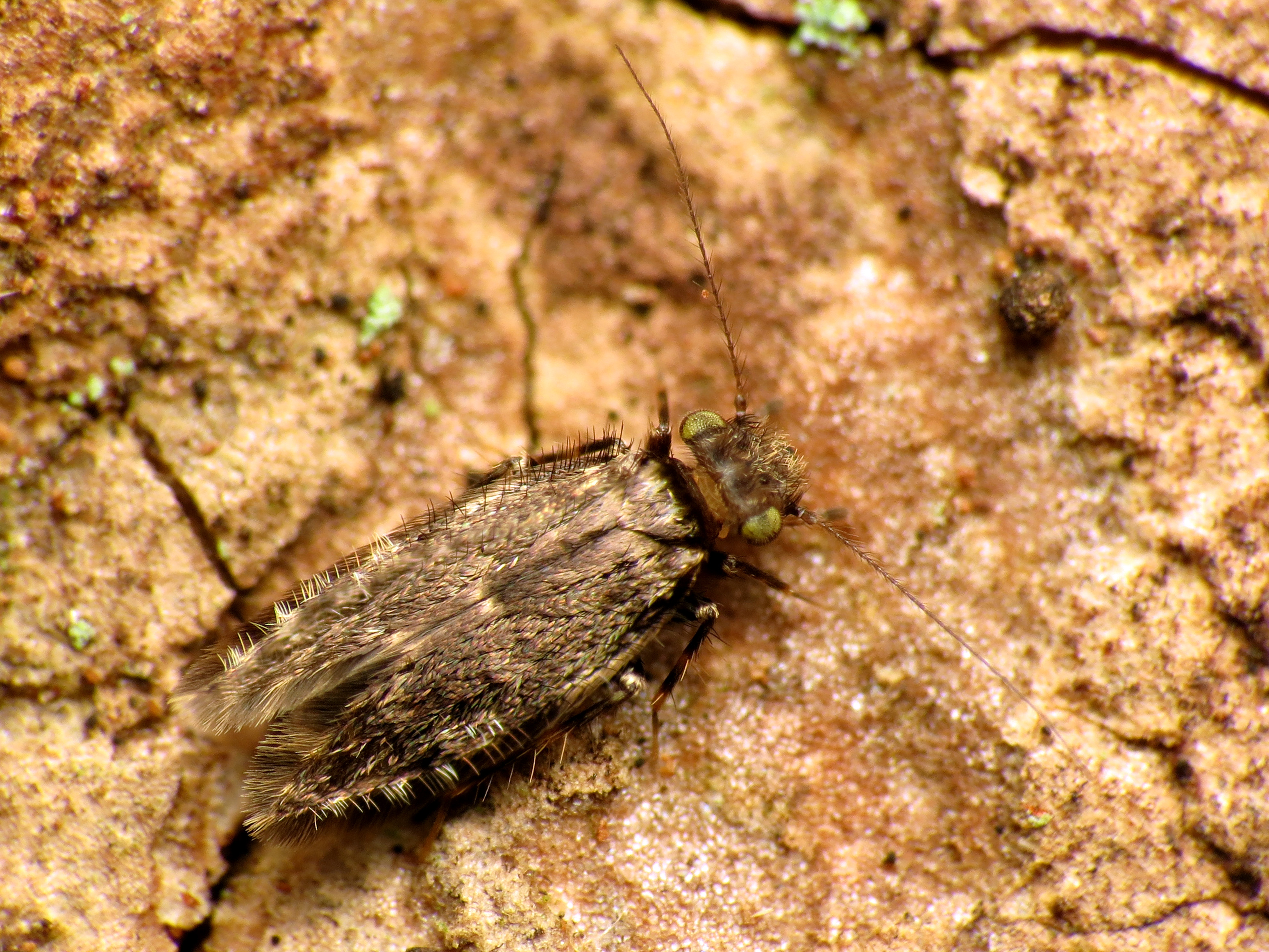 Echmepteryx hageni. Rock Creek Park, Washington, DC, USA.